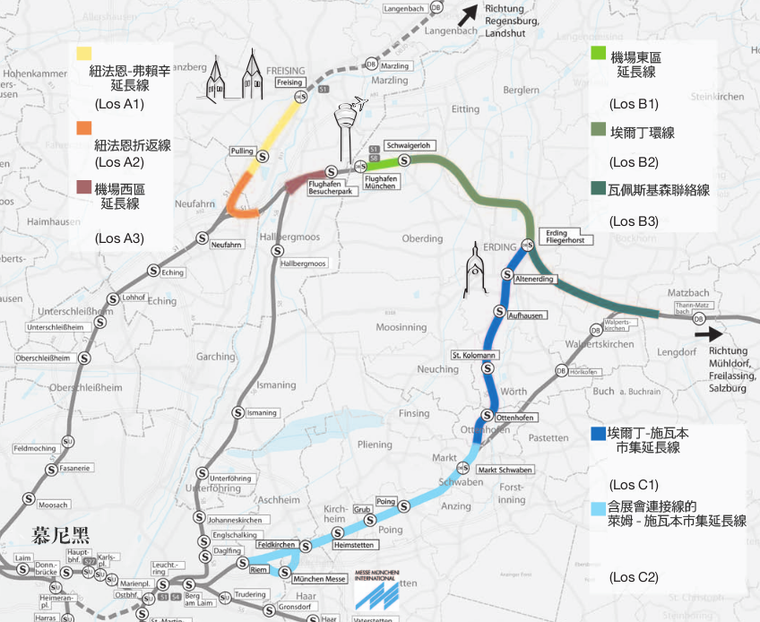 Erding